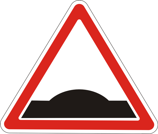 Bump.